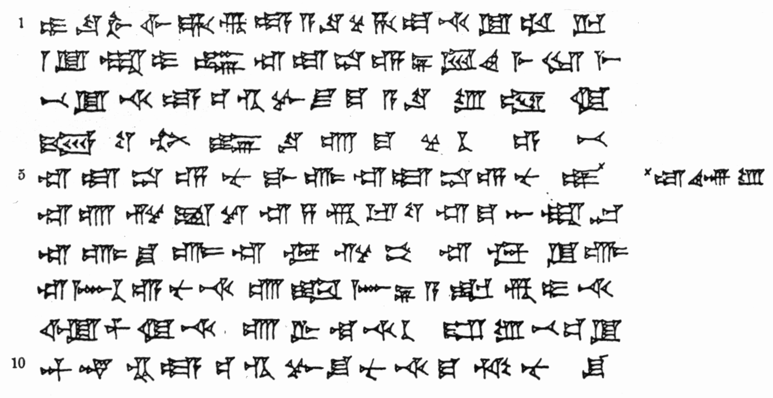 Sennacherib, expedition to the Mediterranean coasts. Testo in accadico di una spedizione di Sennacherib verso il Mediterraneo.